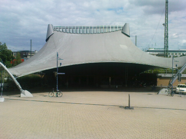 main train station magdeburg